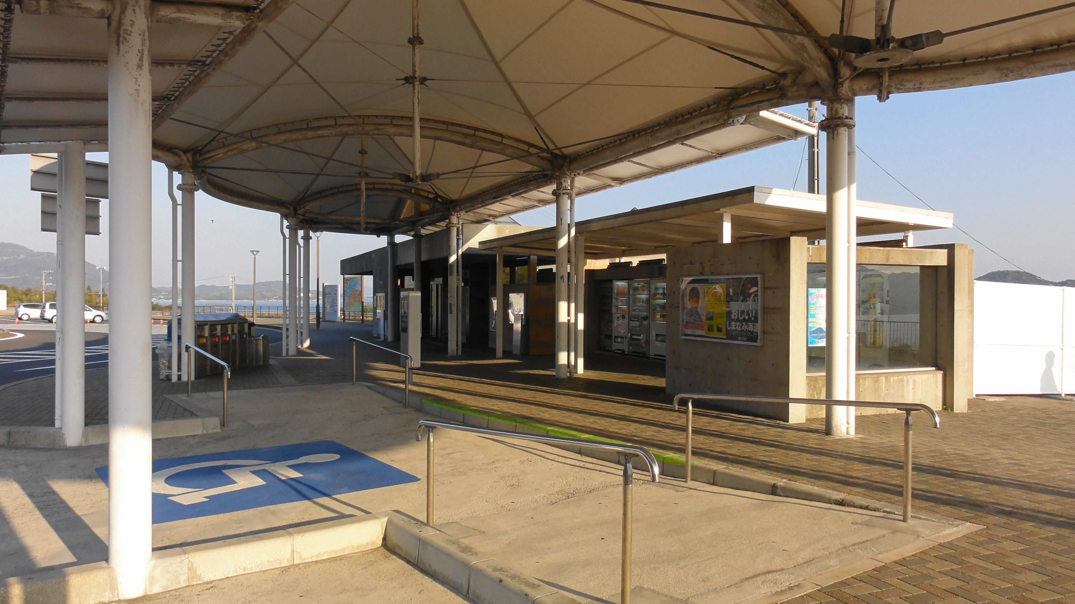 Setoda Parking Area kudari, Hiroshima prefecture, Japan